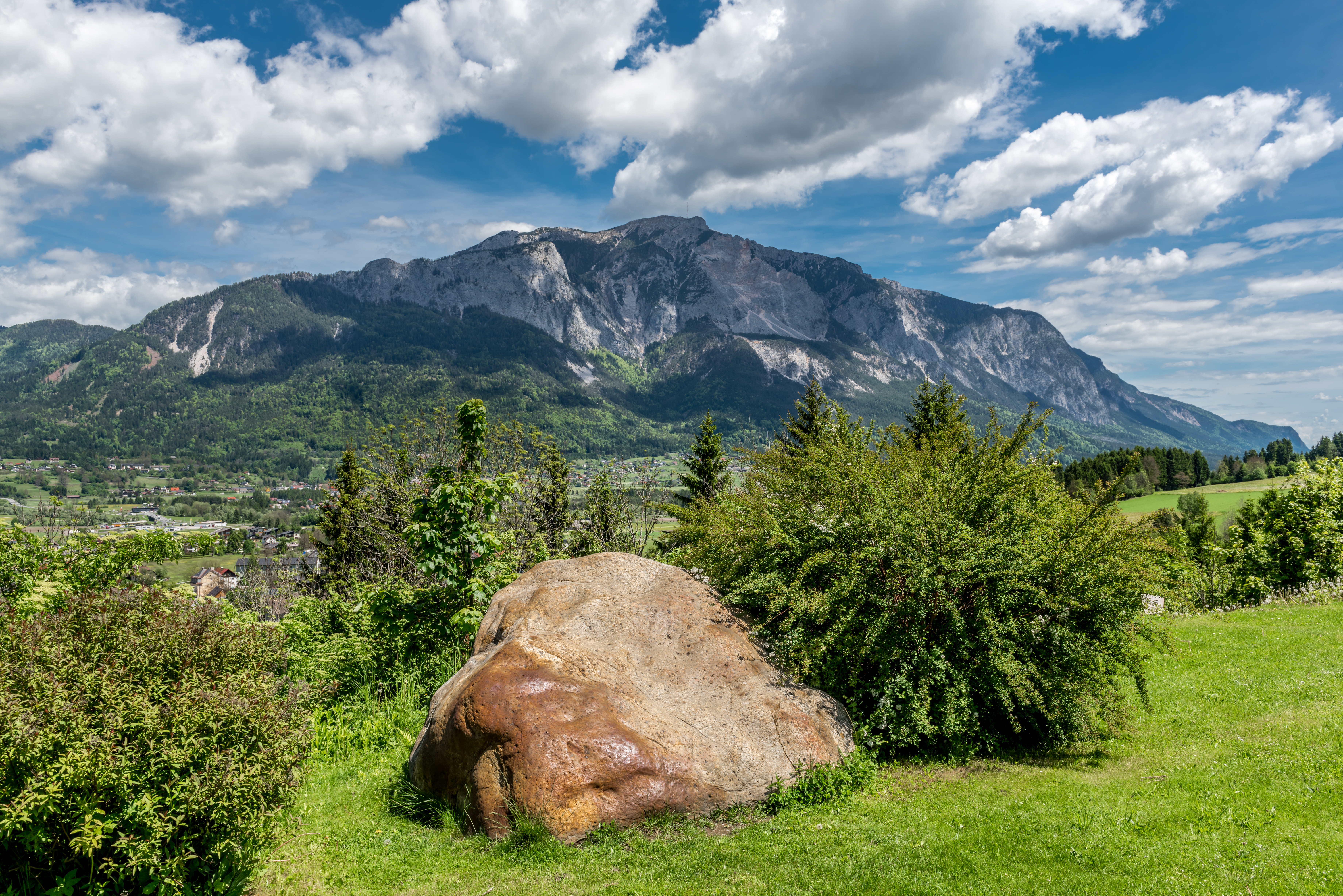 Quartz conglomerate and the Dobratsch (mountain) in the background, municipality Feistritz an der Gail, district Villach Land, Carinthia, Austria, EU